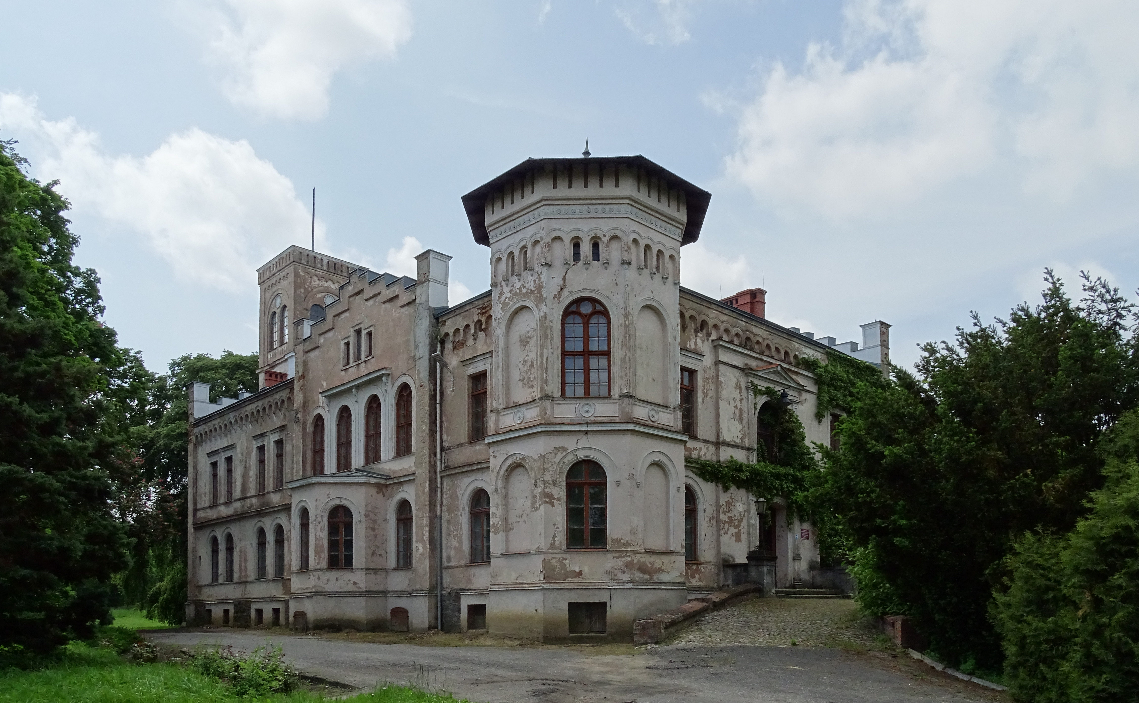 Mełno, Grudziądz county, Poland. Palace from 1855.